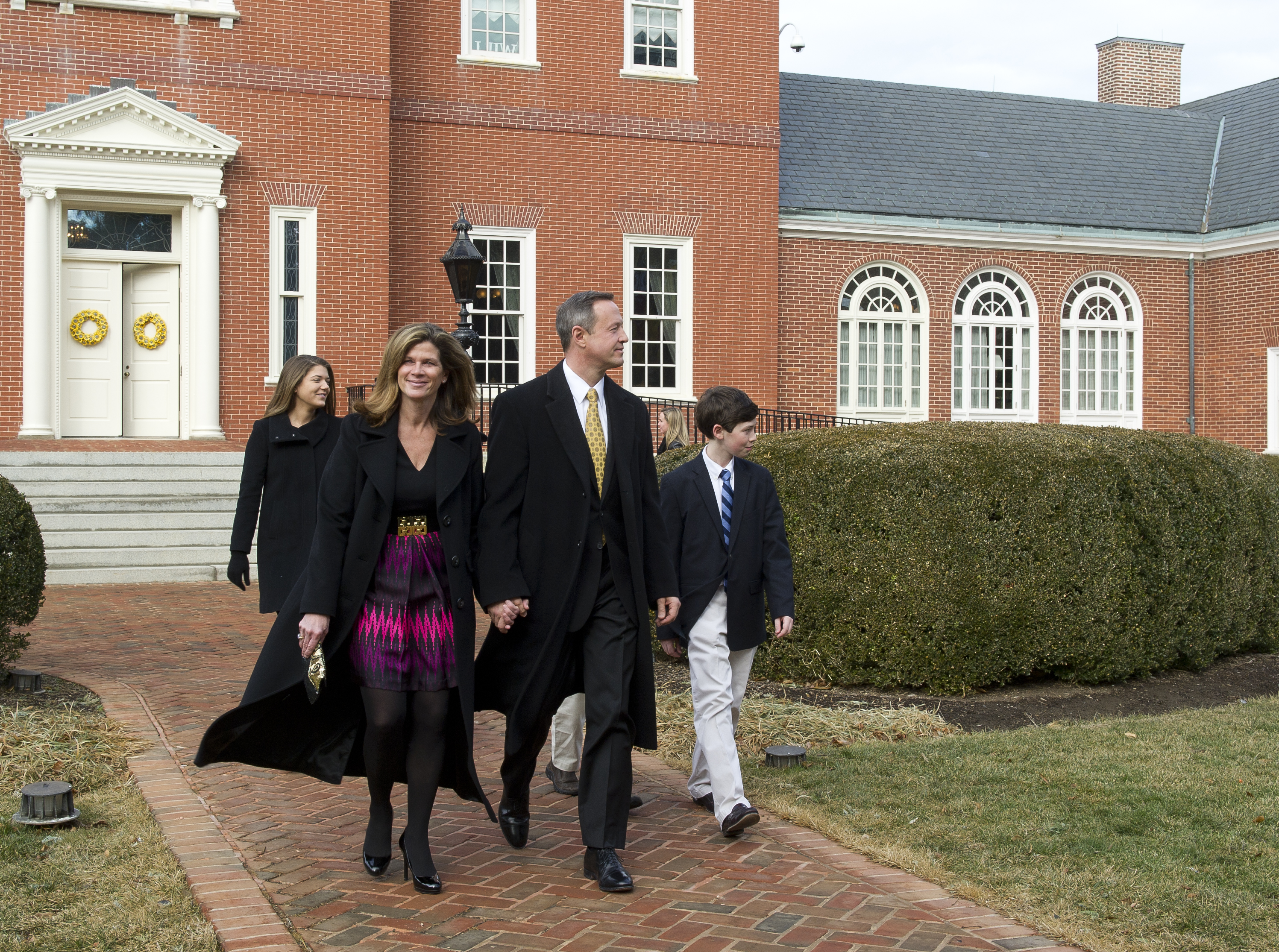 Official and Public Inauguration of Gov Martin OMalley